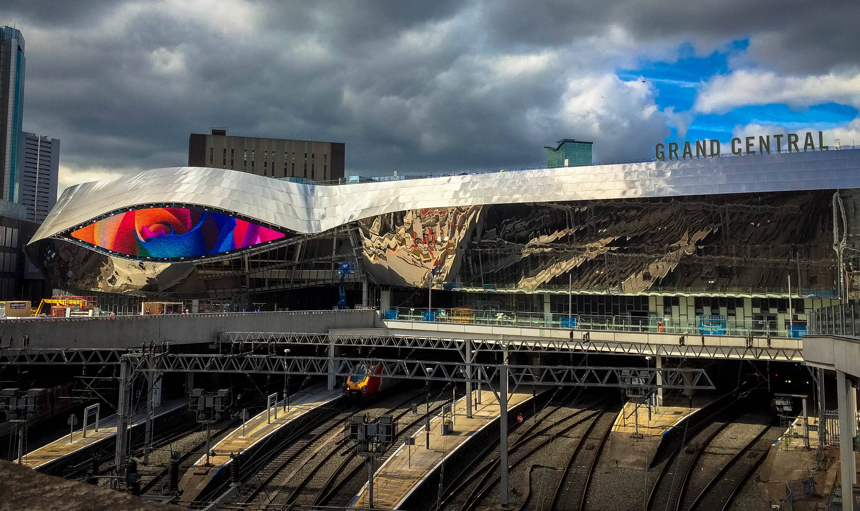 The east end of Birmingham New Street station shortly before re-opening in September 2015.